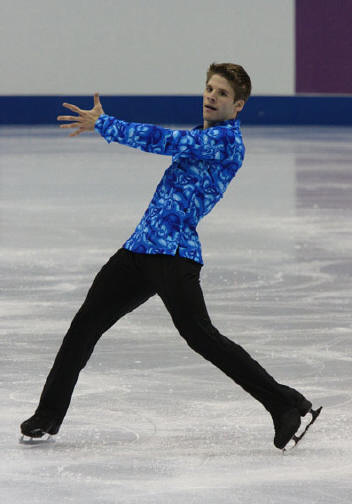 Vaughn Chipeur at the 2009 Canadian Figure Skating Championships.